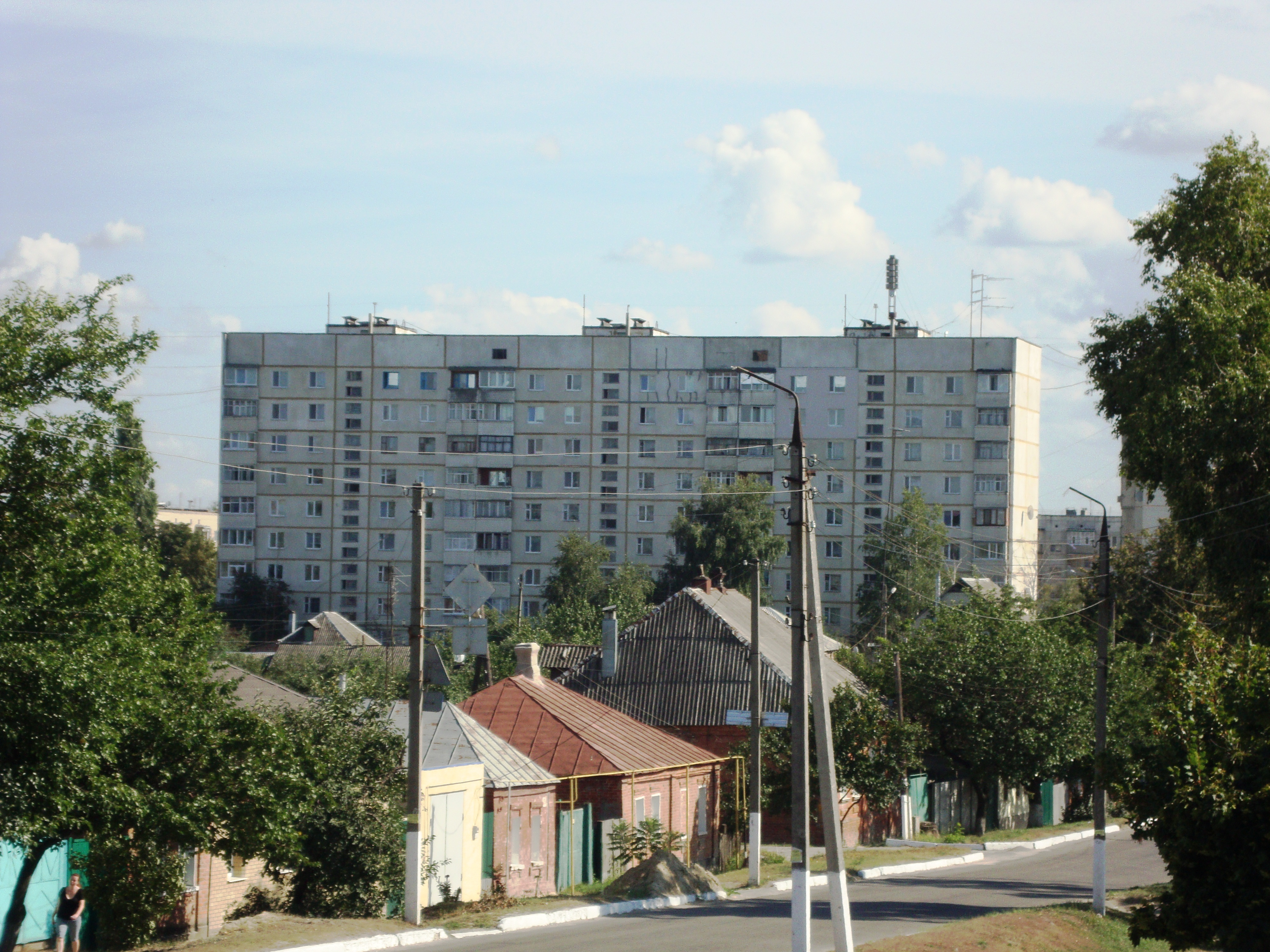 Lenin Street in Vovchansk